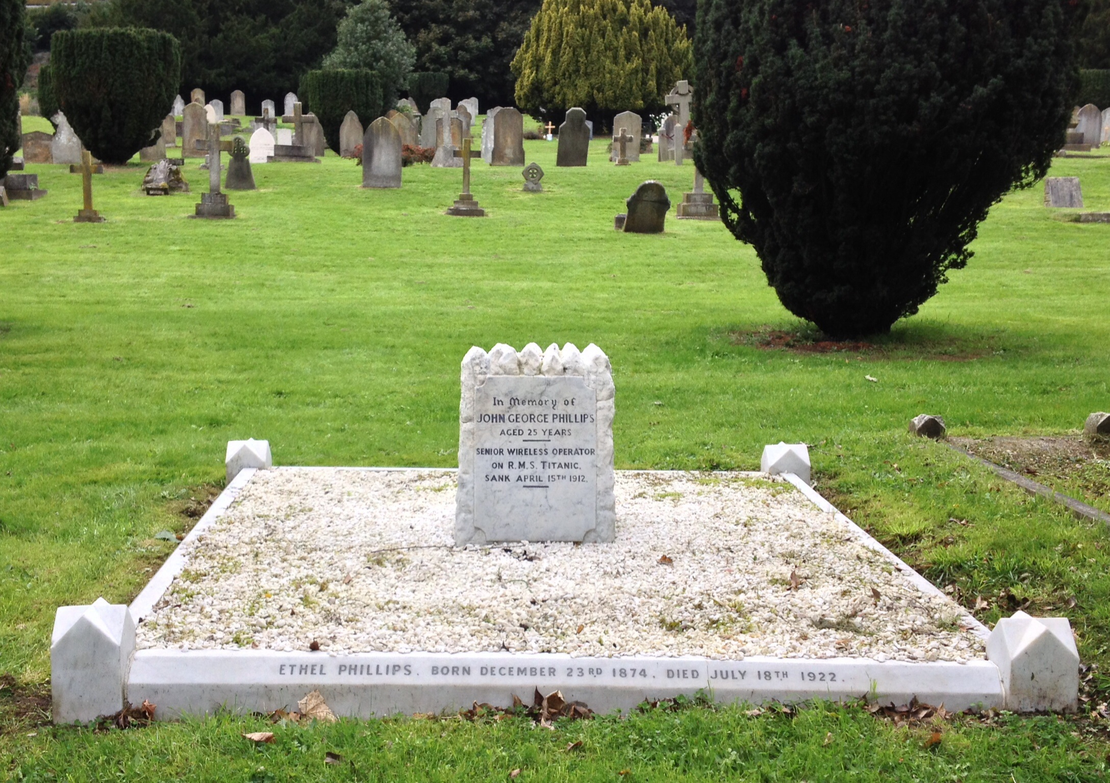 This is the grave of the Phillips family, and includes a memorial to John George (Jack) Phillips, Senior Wireless Operator of the R.M.S. Titanic, who died when the ship sank on April 15th, 1912. It is in Nightingale Cemetery, Deanery Road, Farncombe, Surrey, United Kingdom.